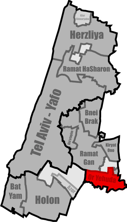 Location of Or Yehuda within the Tel Aviv District.